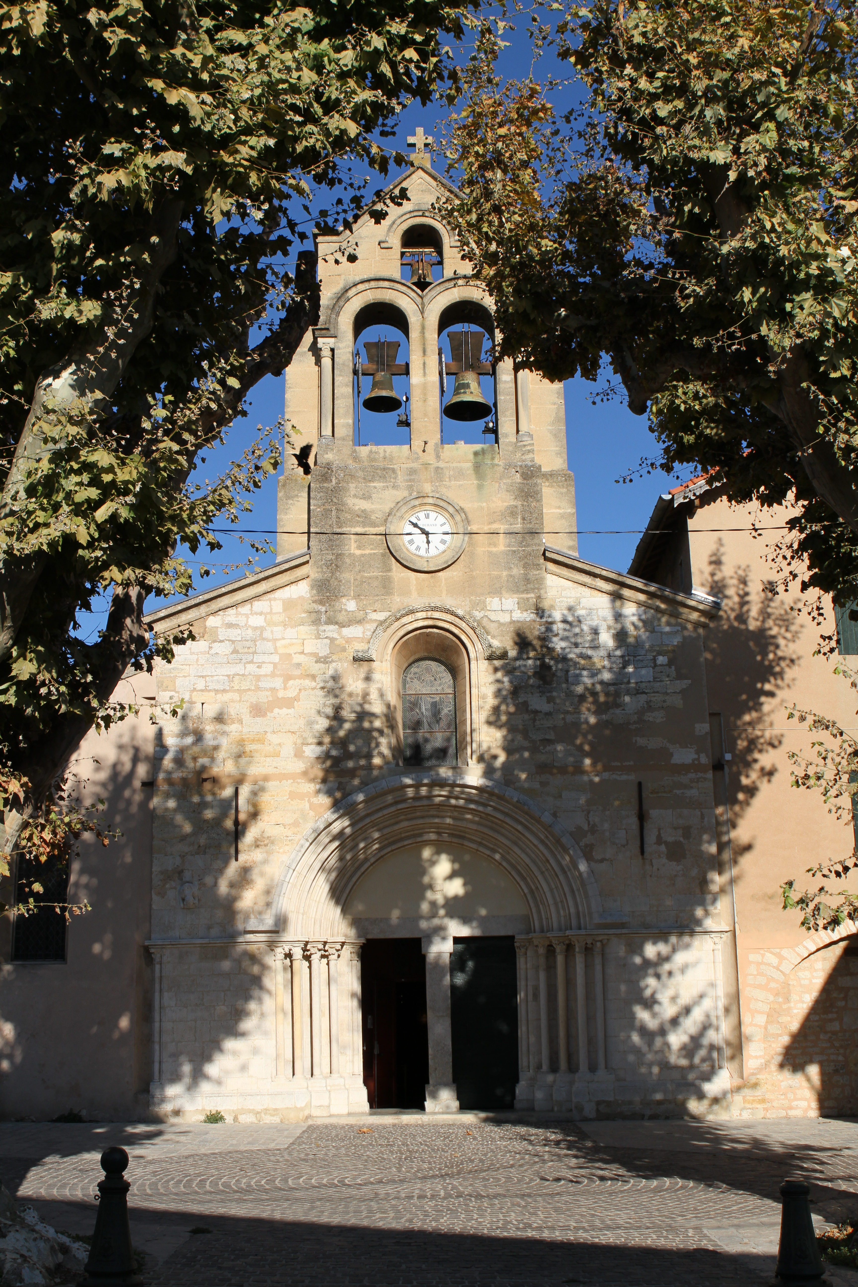 Church Notre-Dame-de-l'Assomption in Puyricard (Bouches-du-Rhône, France)